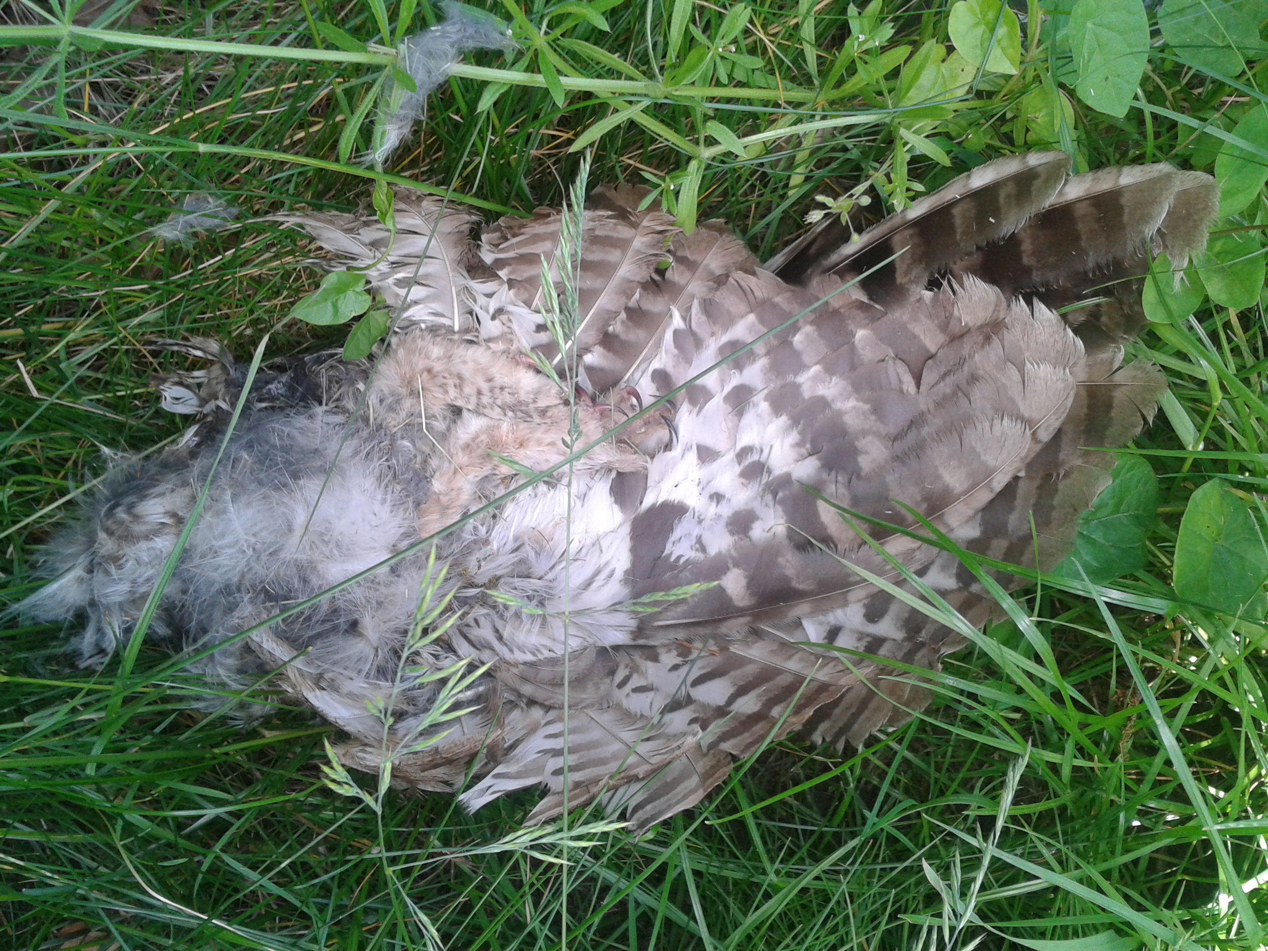 Dead Tawny owl (strix aluco) with wings and claws in Lilienthal, near River Wuemme, N-Germany.